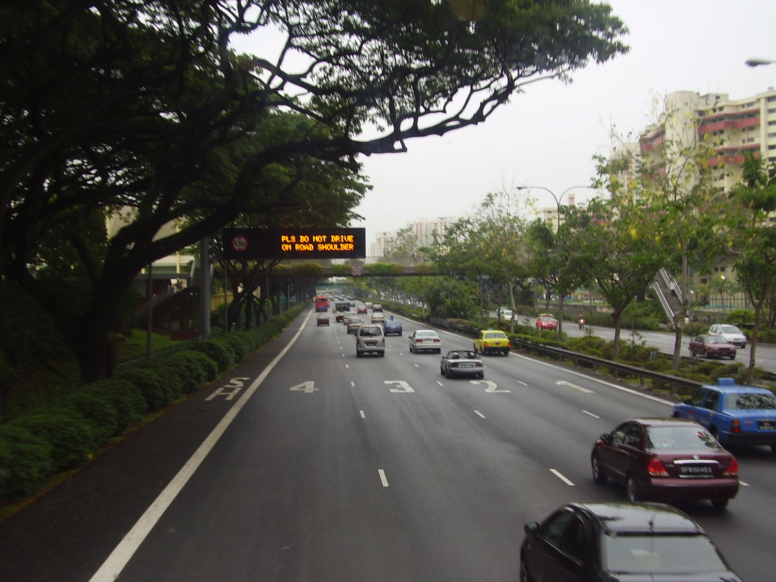 Jalan Toa Payoh (renamed PIE) towards airport, before Kim Keat Link.